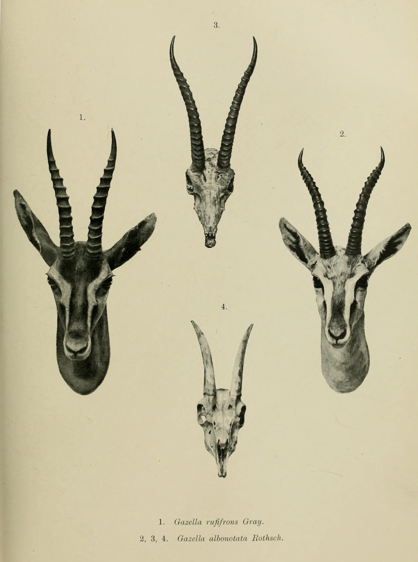 Heads and skulls of Gazella rufifrons (Gray) (1) and Gazella albonotata (Rothschild) (2-4)